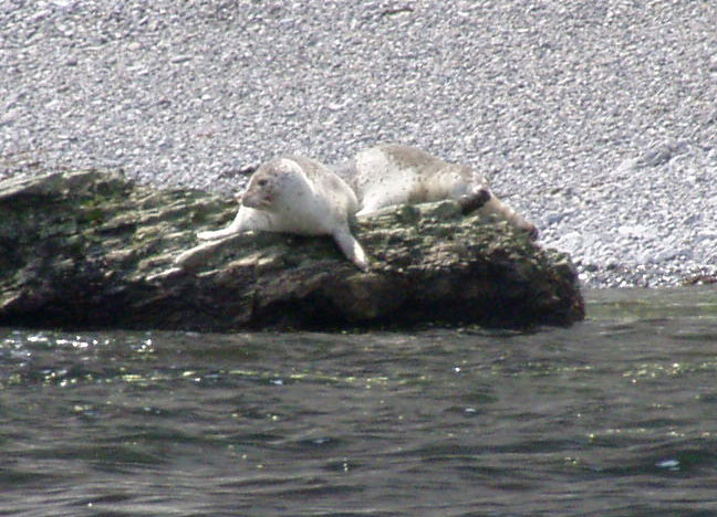 Harbour seal (Phoca vitulina) near Cap Gaspé. Photo taken in July 2005 by Danielle Langlois at the Forillon National Park in Quebec, Canada.